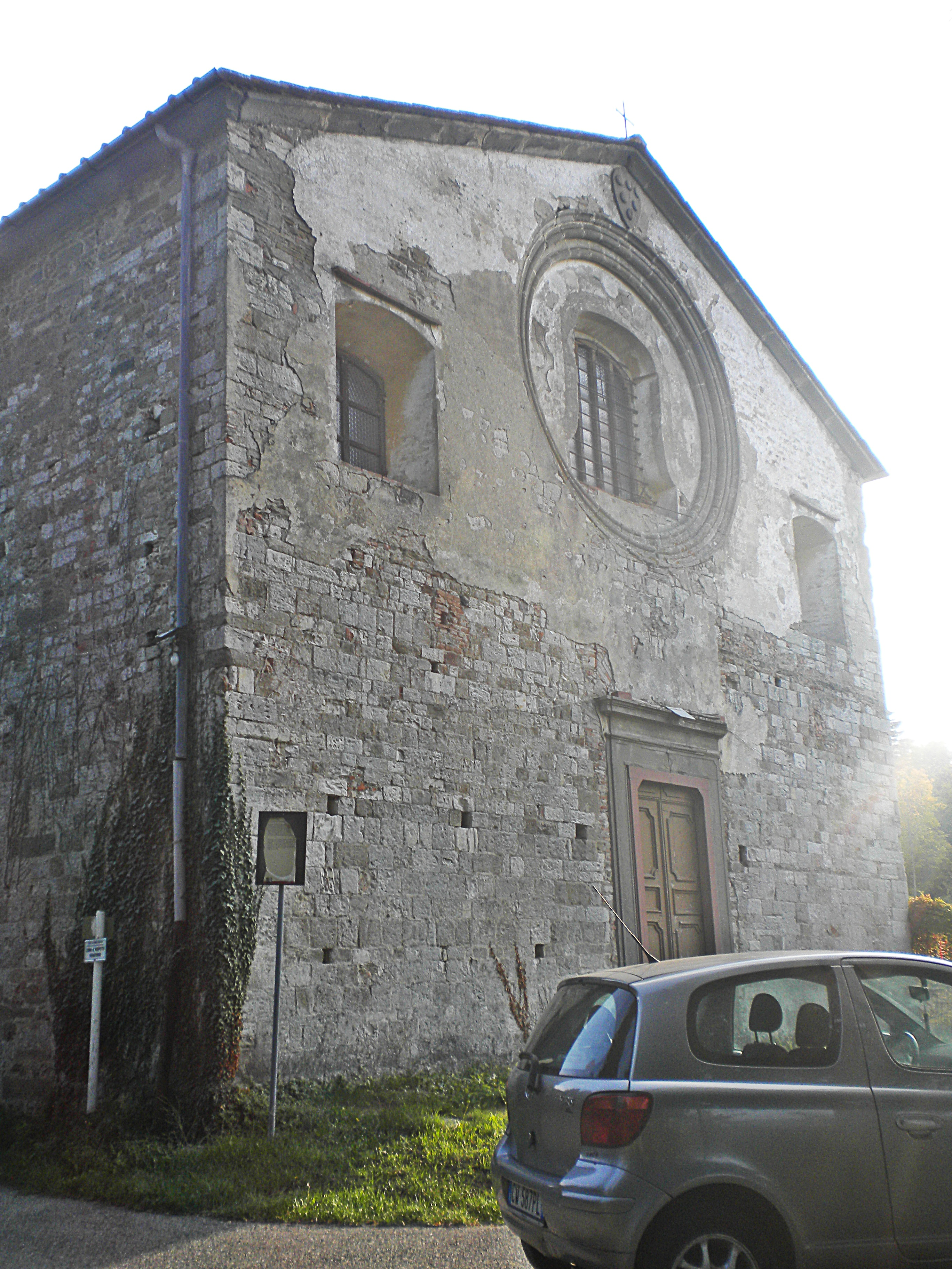 facade